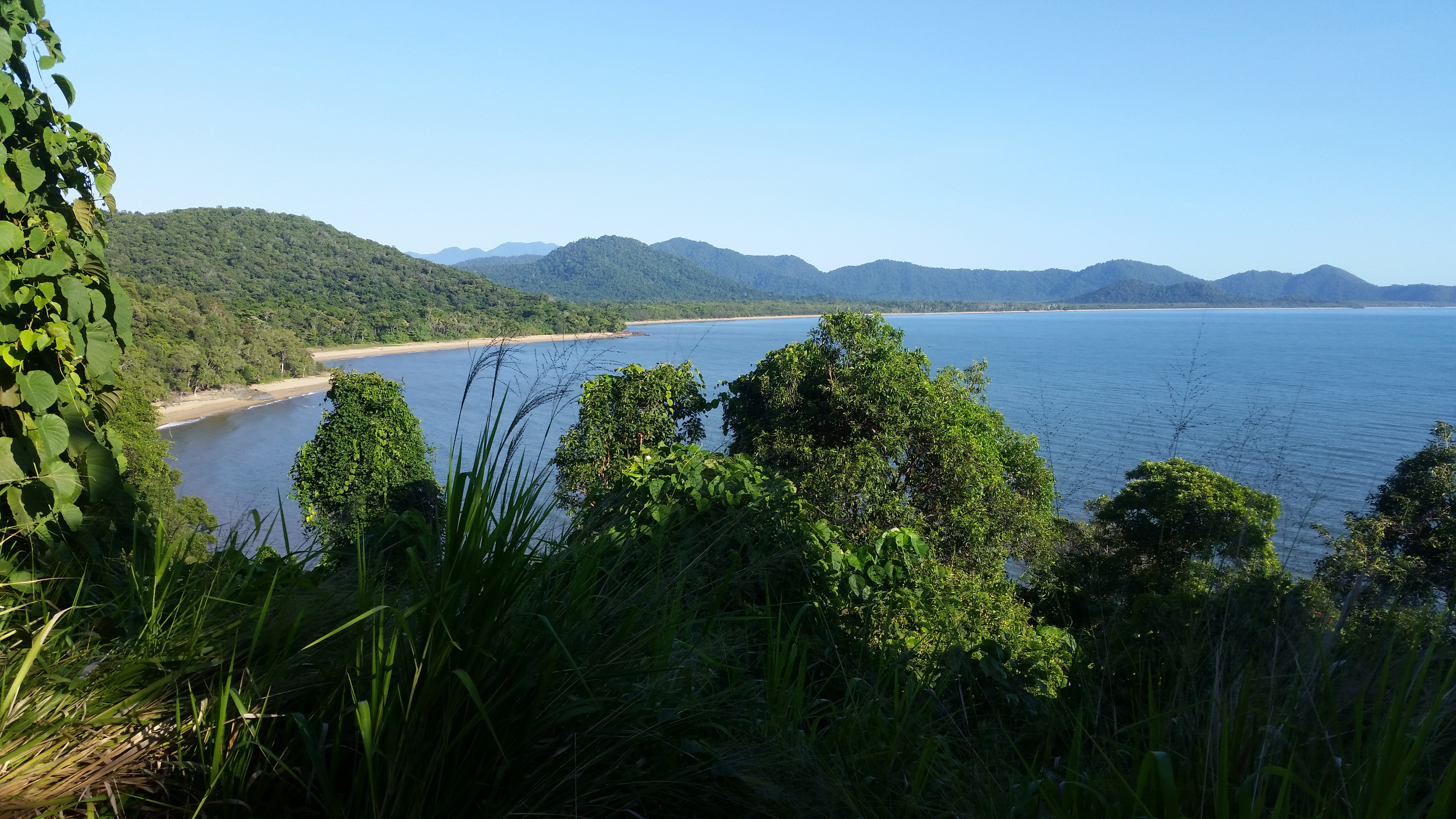 A photo of the southern end of Ella Bay taken from Heath's point facing northward.